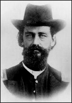 James Isham Gilbert (1823-1884), Colonel of the 27th Infantry (1862), Brig. Gen. of Volunteers (1865). From The Photographic History of the Civil War In Ten Volumes, Volume Ten: Armies and Leaders edited by Robert S. Lanier and published in 1911 by The Review of Reviews Co. of New York City, page 205.